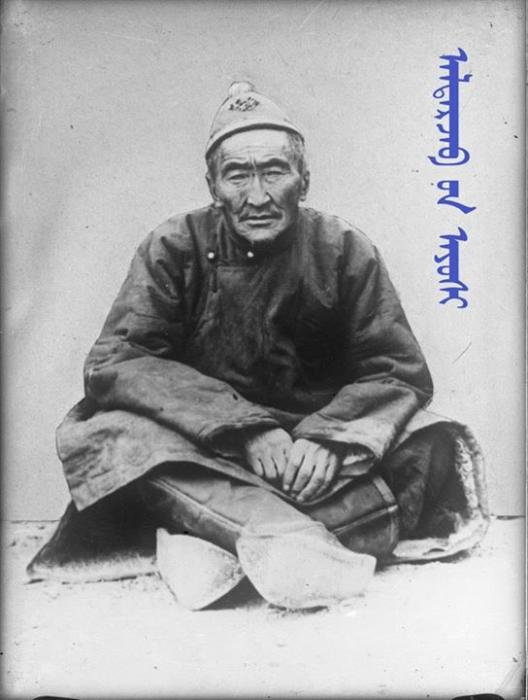 Ard Ayush (sitting)